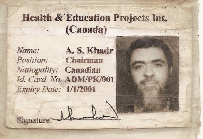 Image of Ahmed Khadr